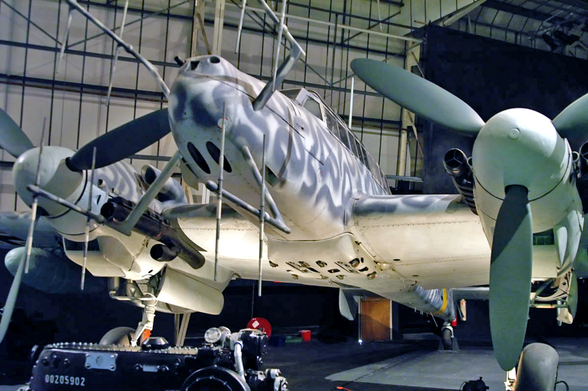 A Bf 110G-4 Night fighter at the RAF Museum in London. The antennas on the nose are of a FuG 220 Lichtenstein SN-2 radar set (ITU-classificatio: Radiolocation land station in the radiolocation service). Clearly visible are the openings for two 20mm cannons in the lower nose and two 30 mm cannons in the upper nose.